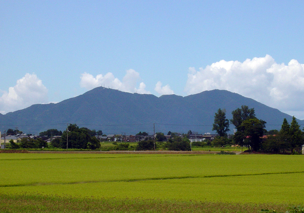 Mount Yahiko (left) and Mount Taho (right) as seen from Sakae Parking Area on the Hokuriku Expressway